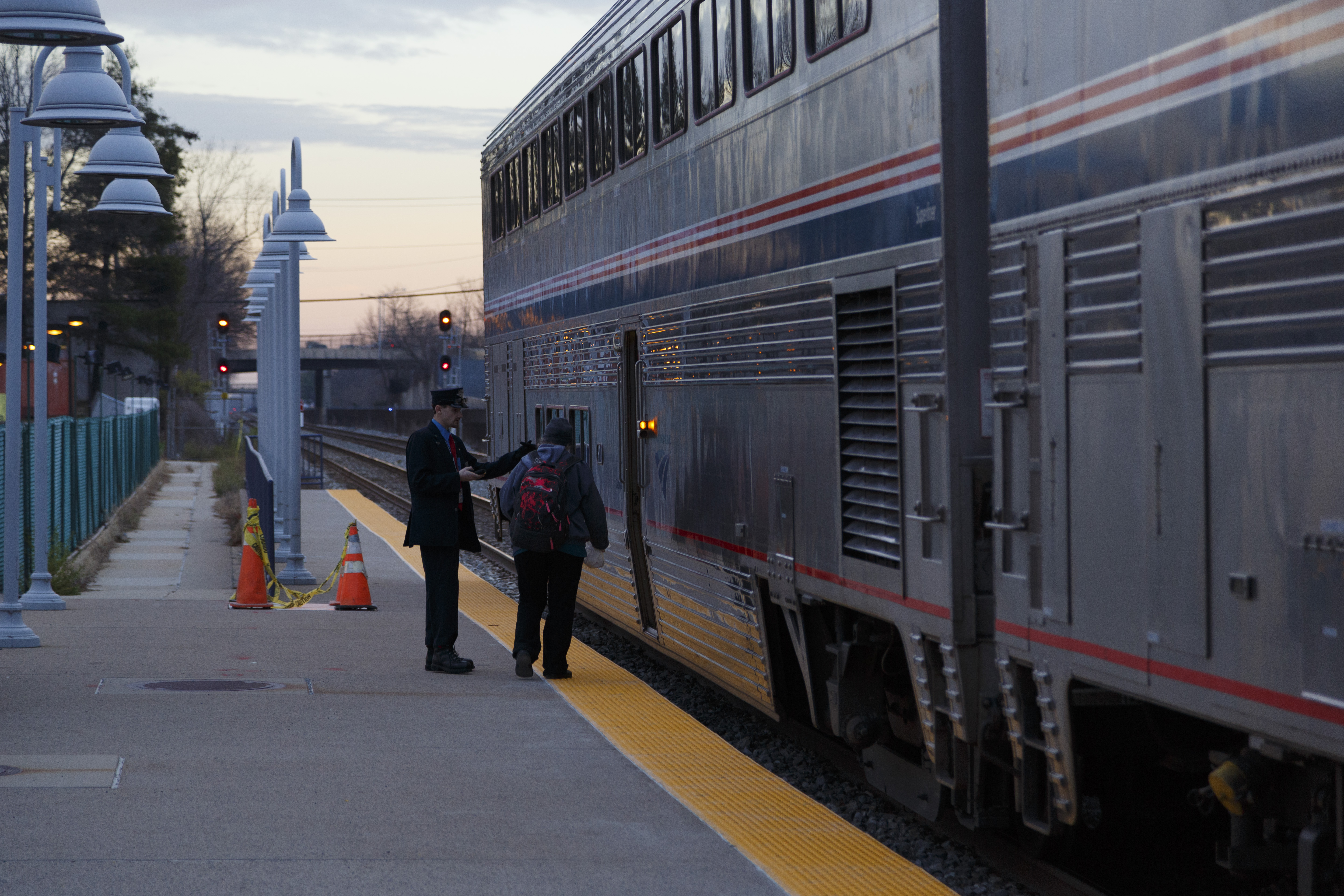 View westbound at the MARC/Amtrak station in Rockville, MD as the Capitol Limited boards its lone passenger at RKV as the sun goes down around 4:30 PM that day.